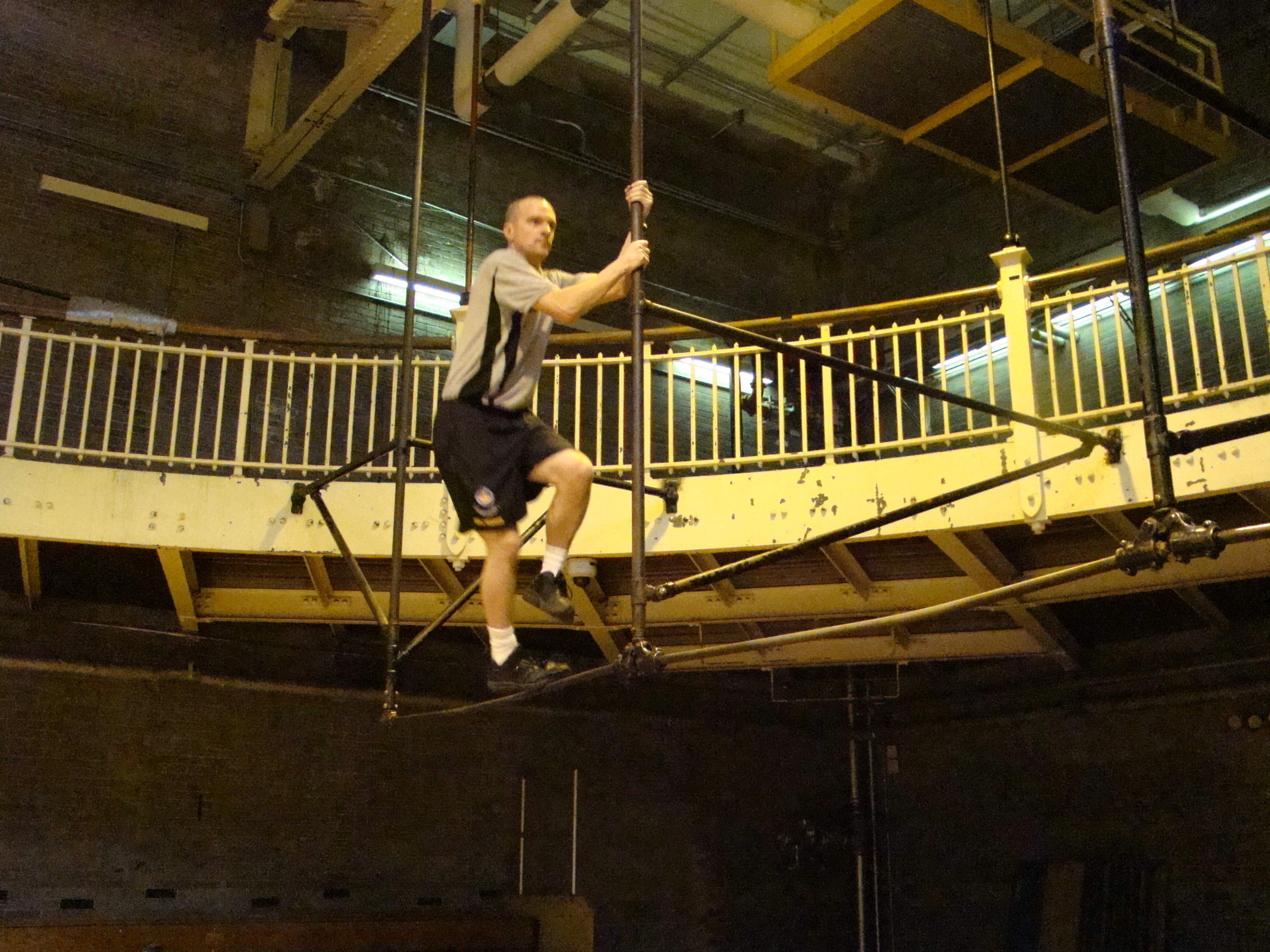 DPE Instructor demonstrates how to maneuver the Horizontal Bar obstacle of the IOCT